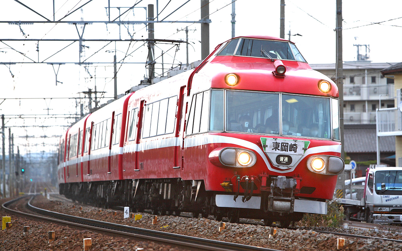 Meitetsu 7000 series EMU ( 7011F between Fujimatsu Sta. and Hitotsugi Sta.)